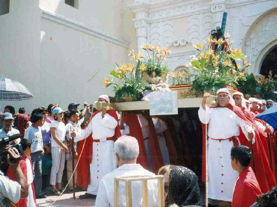 Holy Week procession in Comayagua, Honduras. Some 40 men (and some women) are carrying a statue of Christ carrying the Cross.